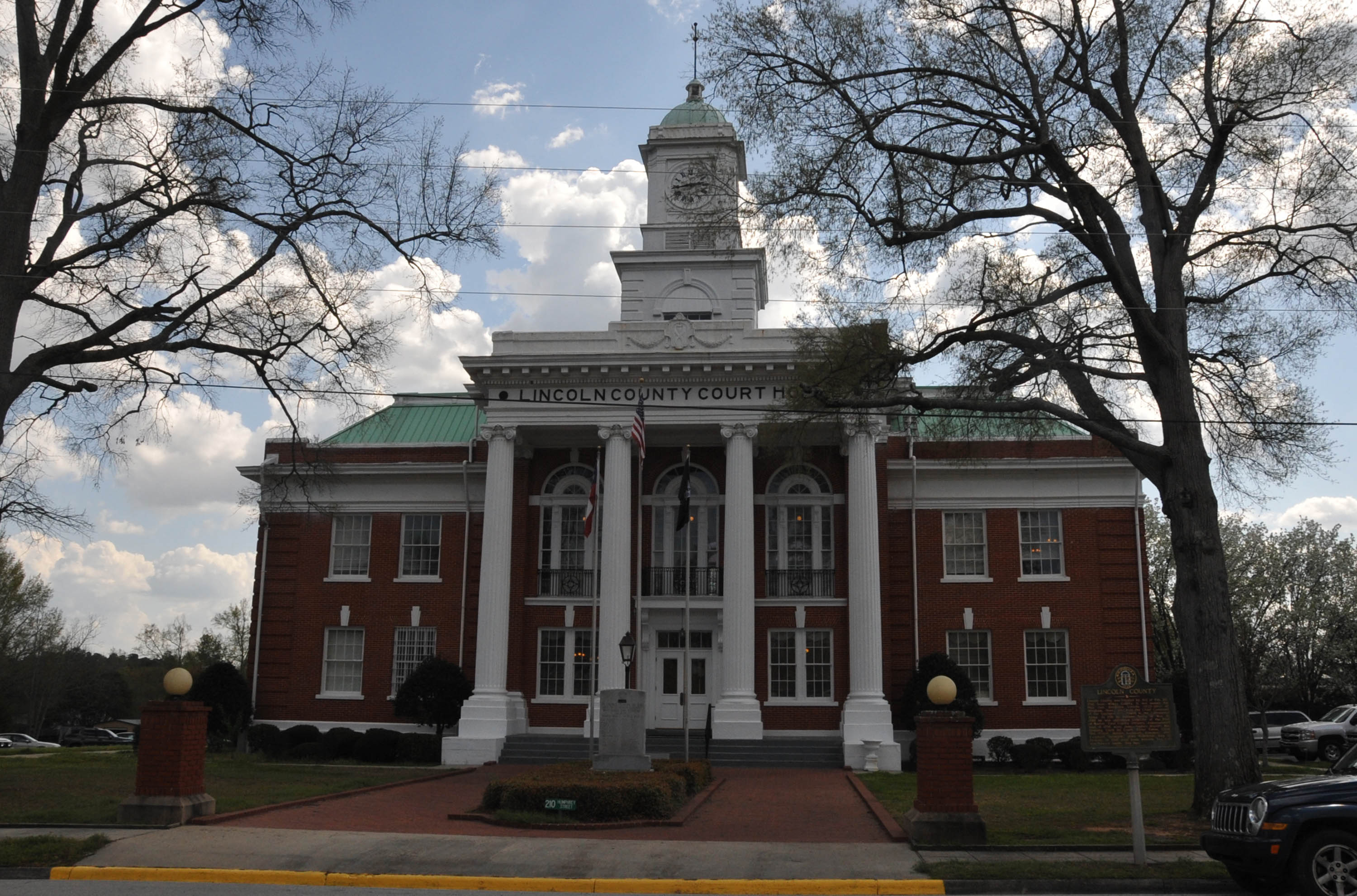 ERECTED 1915; COUNTY WAS NAMED FOR BENJAMIN LINCOLN WHO ACCEPTED CORNWALLIS' SURRENDER AT YORKTOWN